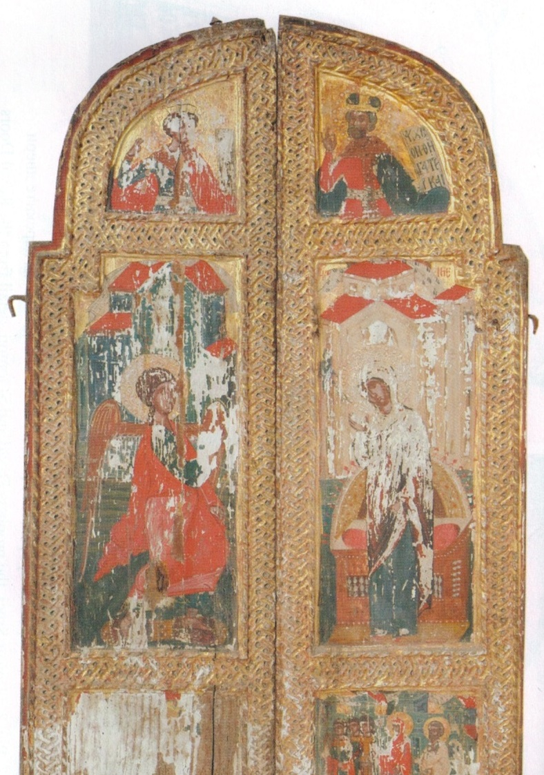 Royal Doors in St. Demetrius Church in Sredno Egri 16th - 17th Century